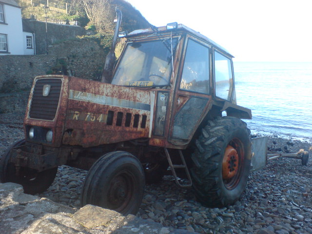 Rusty relic : Lamborghini R 754